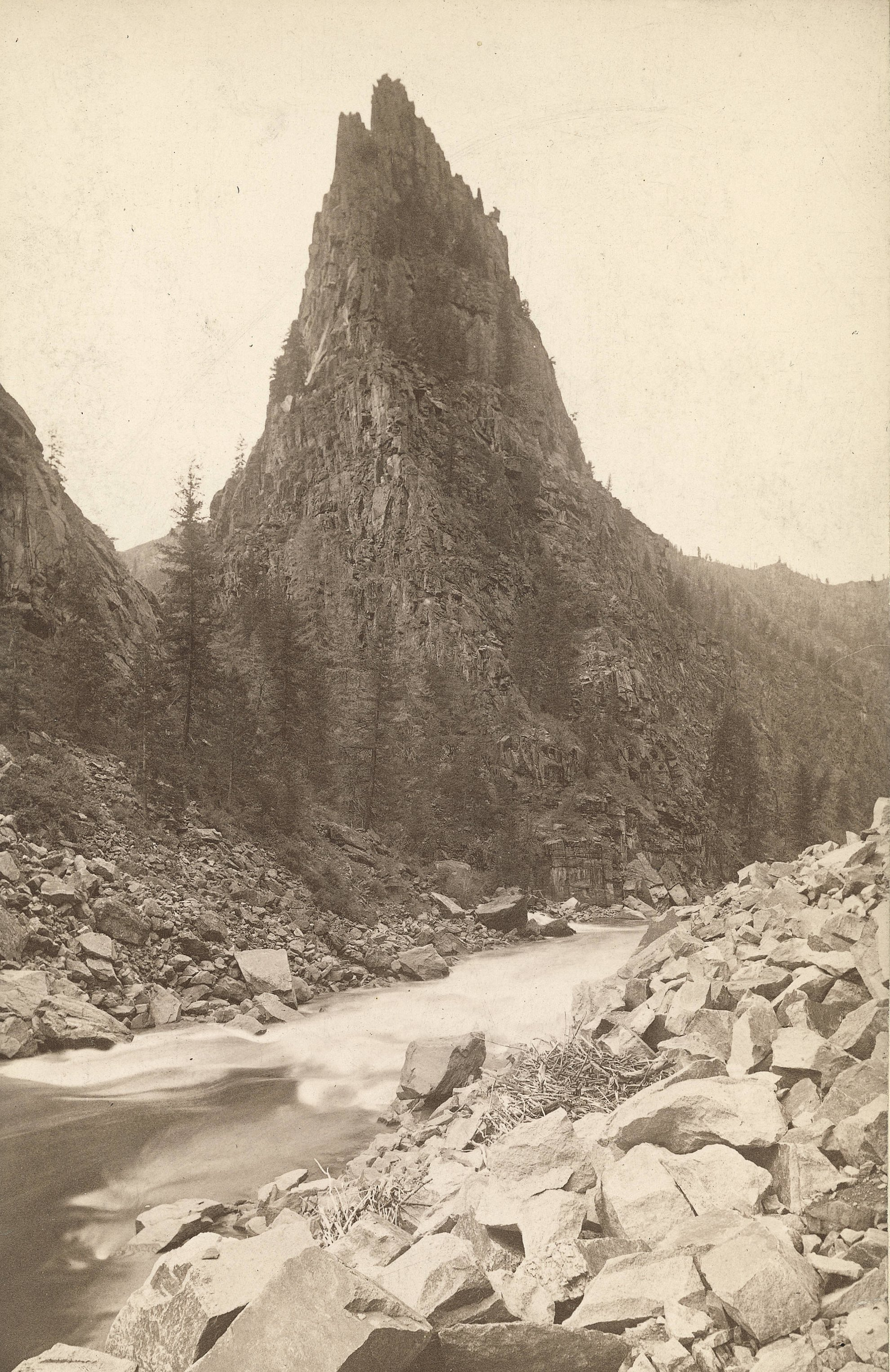 Curecanti Needle is a 700 ft. granite spire in the Curecanti National Recreation Area.